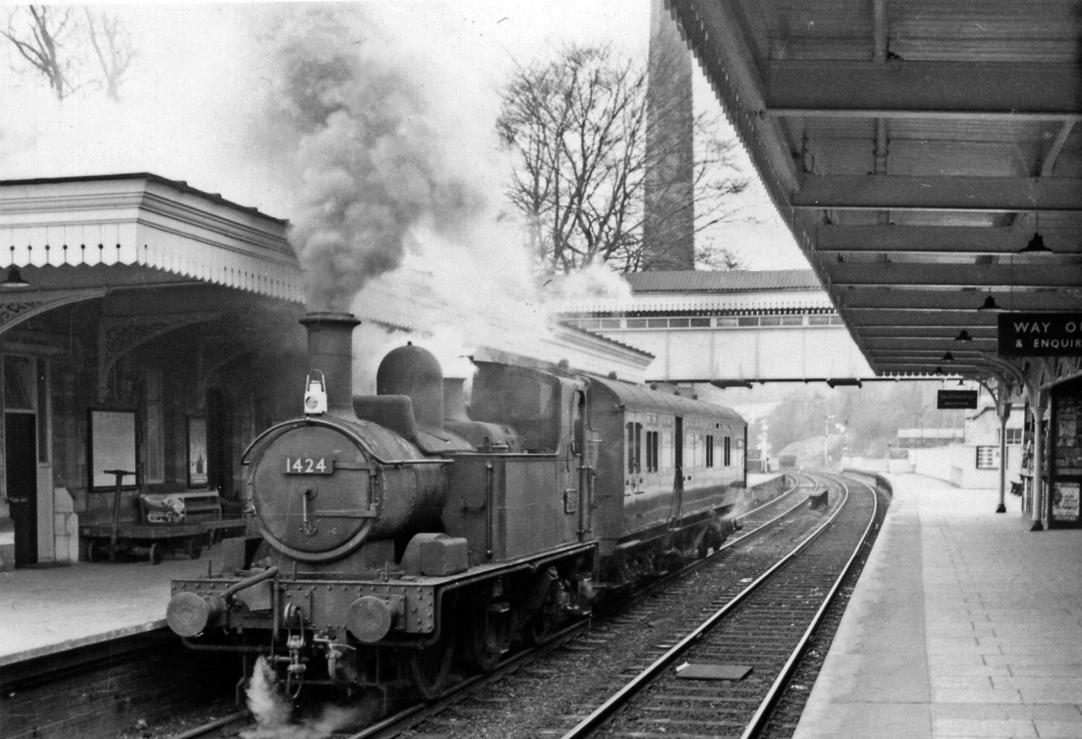 Chalford - Gloucester auto-train at Stroud. This is one of the popular Golden Valley auto-trains (see SO8009 : Gloucester - Chalford auto-train near Haresfield). The locomotive, Collett 0-4-2T No. 1424 (built 11/33 as No. 4824, renumbered 11/46, withdrawn 12/63), is pushing - manned only by the fireman.